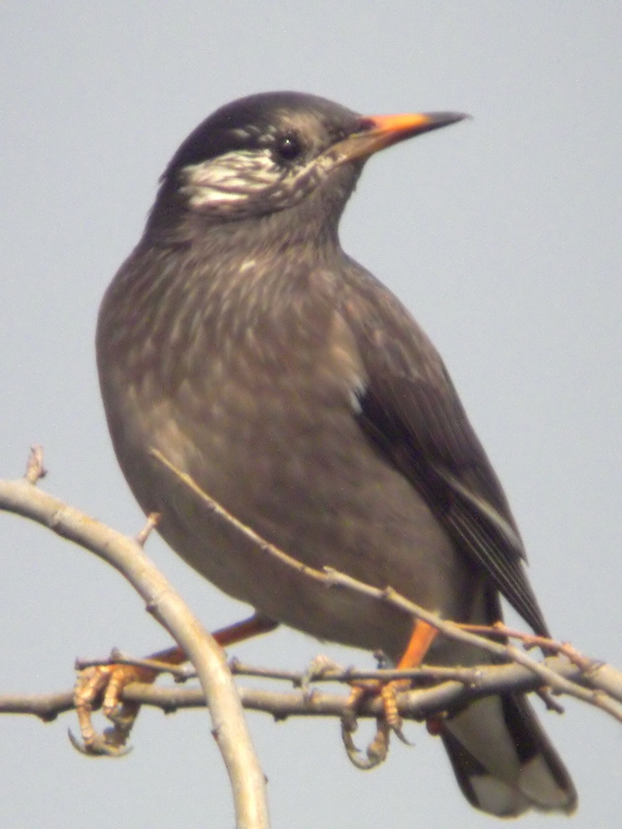 White-cheeked Starling. Tai Long, New Territories, Hong Kong